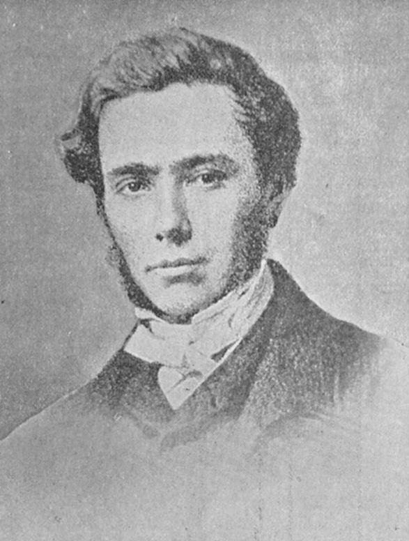 Photographic portrait of Welsh-language poet William Thomas ("Islwyn") (1832-1878), published in Gwaith Barddonol Islwyn, edited by O. M. Edwards (Wrexham, 1897). The poet was 27 years old when this picture was taken, in 1859.